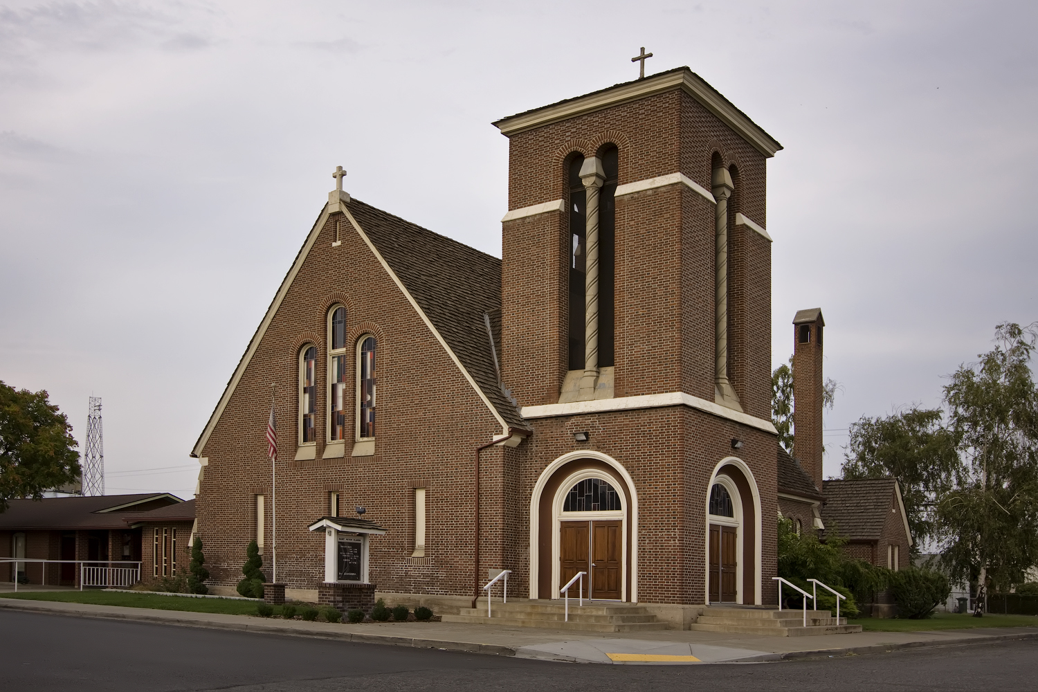 St Peter Claver Catholic Church in Wapato, WA